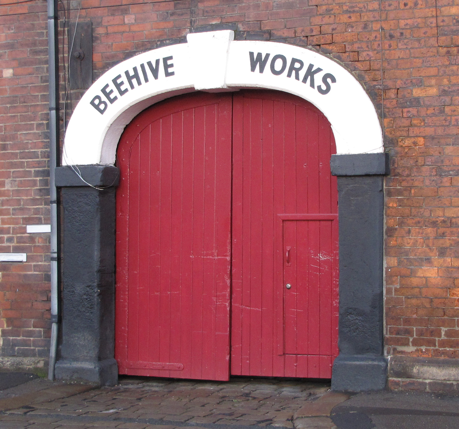 The courtyard entrance to the Beehive Works, a Grade II* listed building in Sheffield, England.